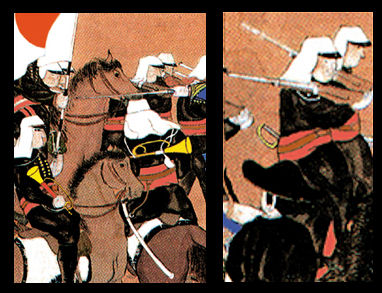 Bakufu_French_style_cavalry_and_infantry_detail